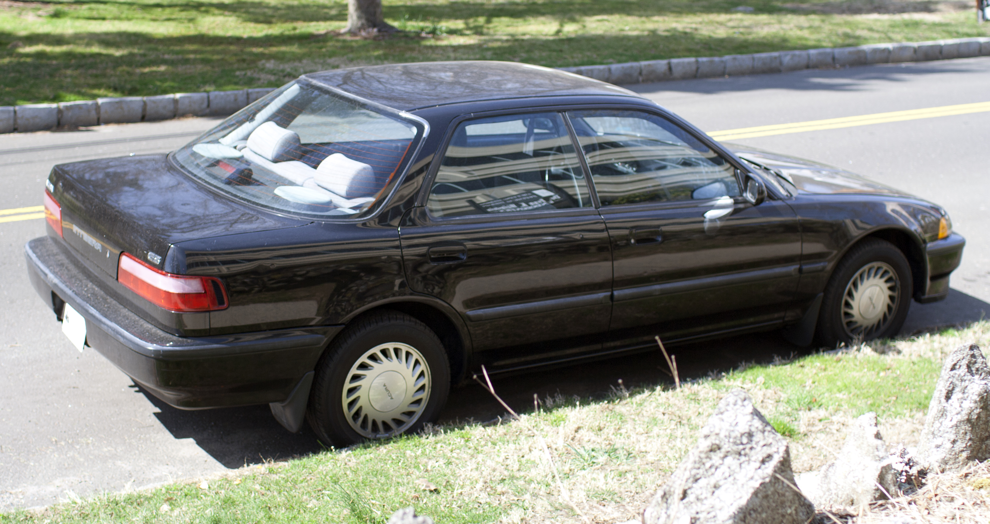 1990 Acura Integra GS. 1.8 liter engine, five-speed manual!